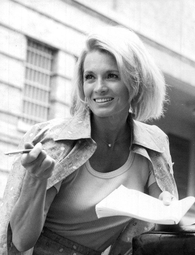 Photo of Angie Dickinson as Pepper Anderson from Police Woman.